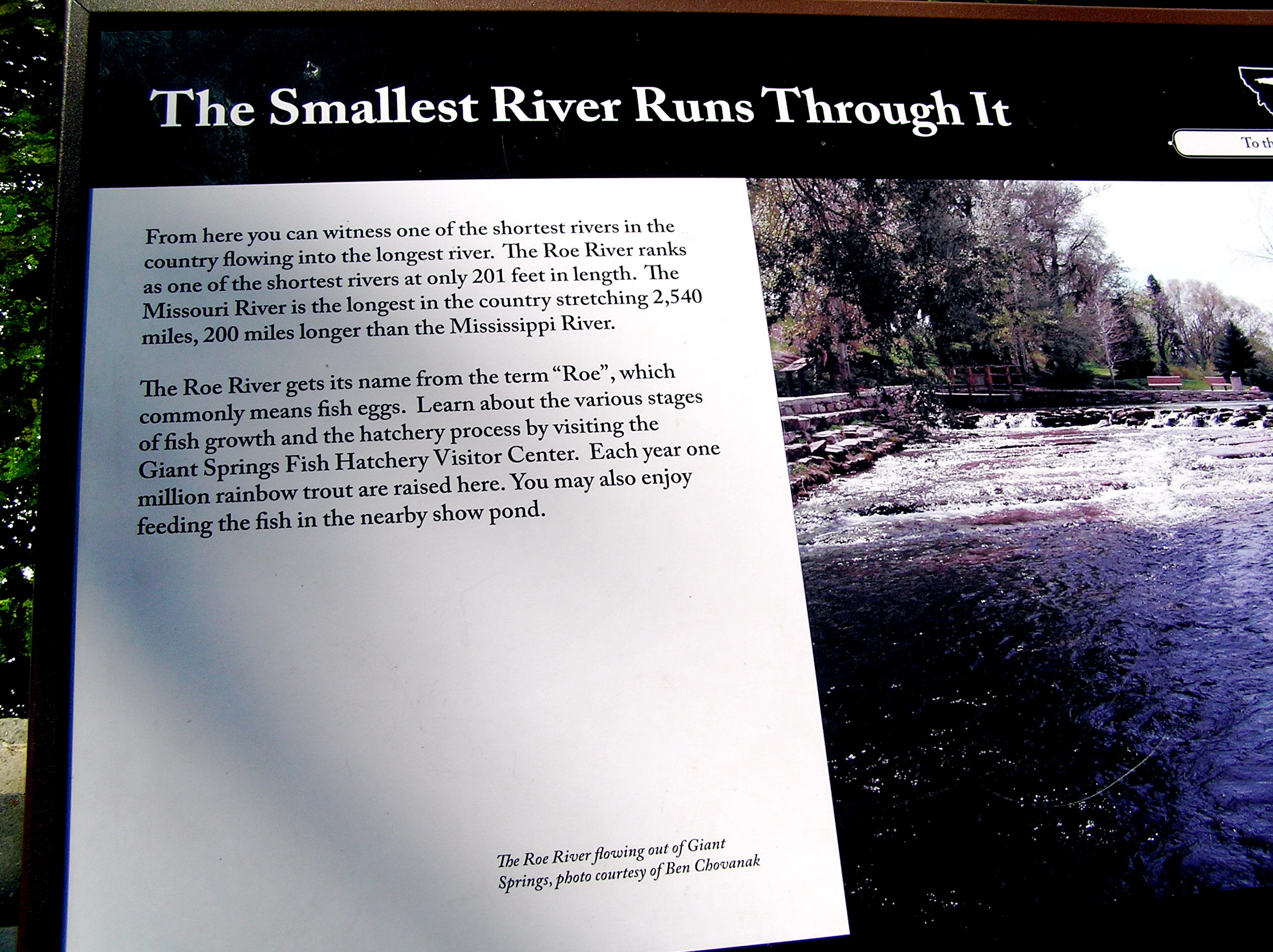 Natural history sign at the Giant Springs Trout Hatchery in Giant Springs State Park — Great Falls, Montana.